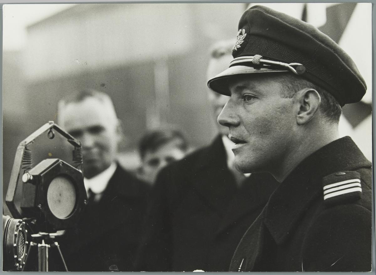 Uiver commandant De heer Parmentier spreekt door een microfoon de toeschouwers toe tijdens de huldiging ter ere van de behaalde prijzen in de Melbourne-race, 30 november 1934.